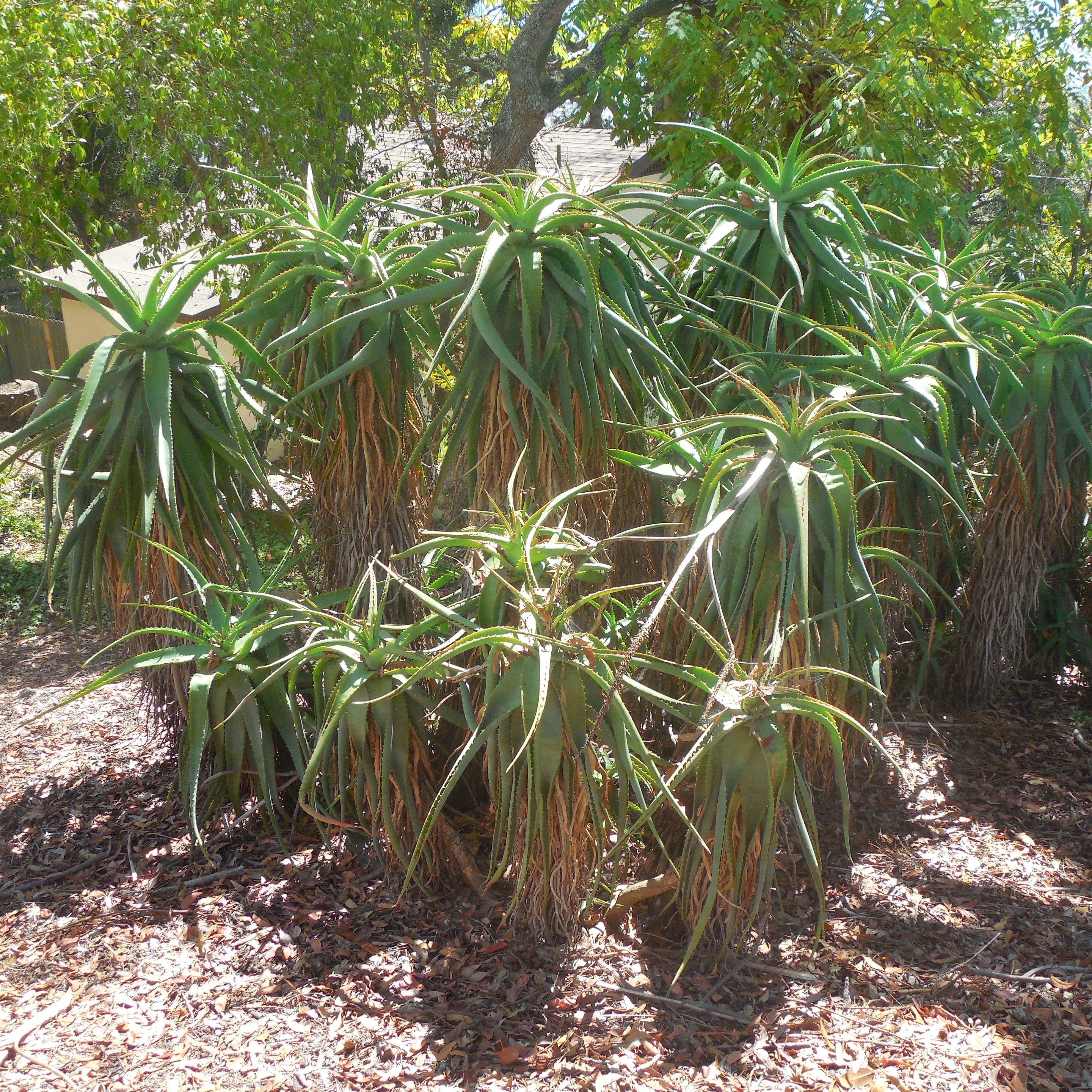 Aloe plantings behind "Montarioso" in Franceschi Park, Santa Barbara, California, 2015.